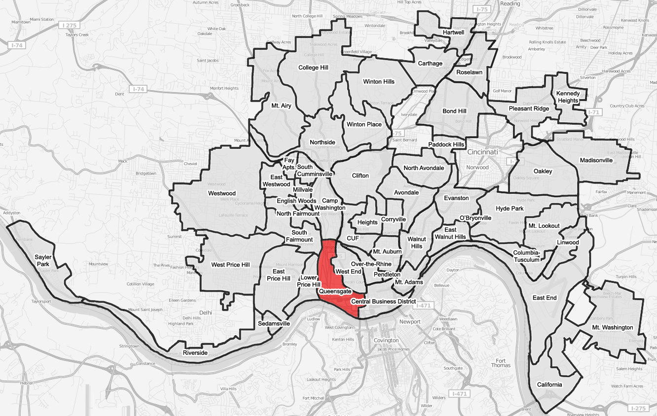 A map of the neighborhood of Queensgate within Cincinnati, Ohio. Neighborhood lines are based on information from This street map is derived from a free map.